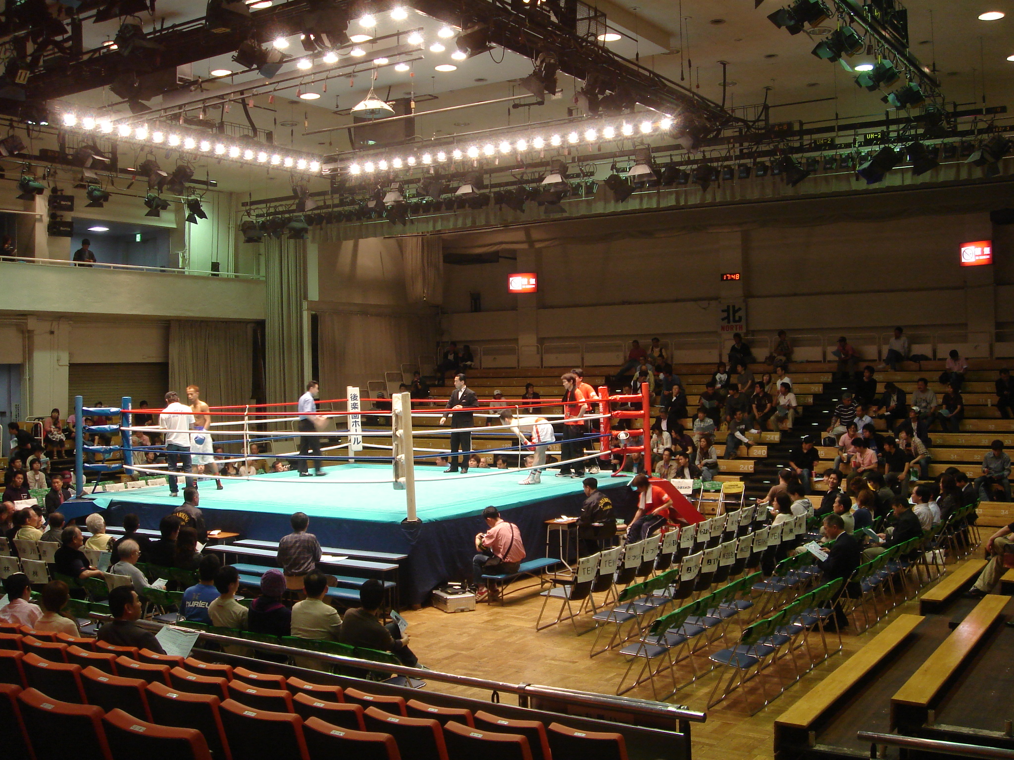 The photo shows a scene from a preliminary match of the annual Japanese boxing series "East-Japan Rookie King Tournament", held at the Korakuen Hall in Tokyo, Japan.